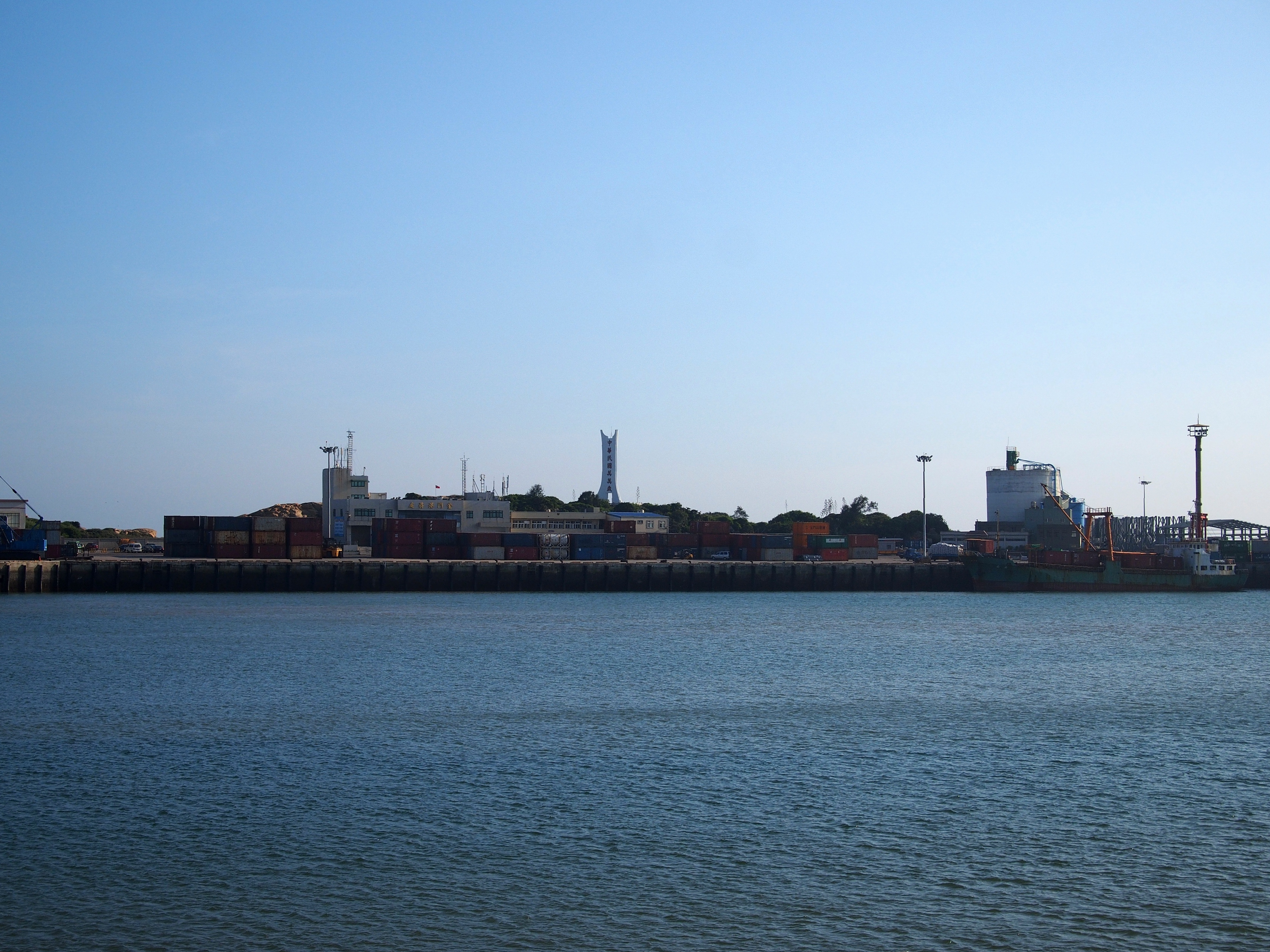 Liaoluo Port - 2014.09